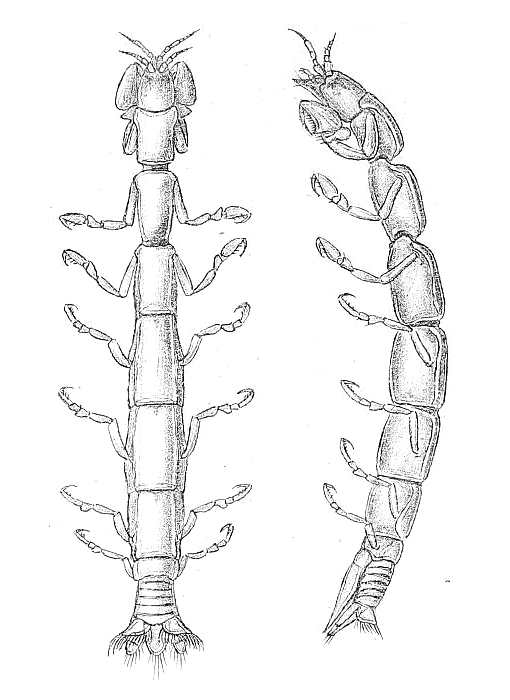 Leptanthurid isopod Calathura norvegica female: dorsal view (left) and lateral view (right).